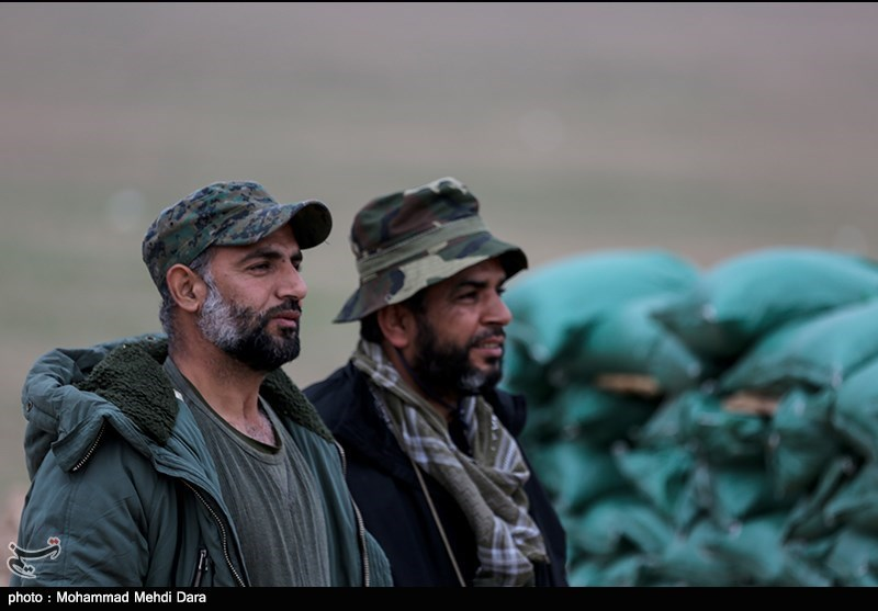 Popular Mobilization Forces in Tal Afar Battle in Iraq